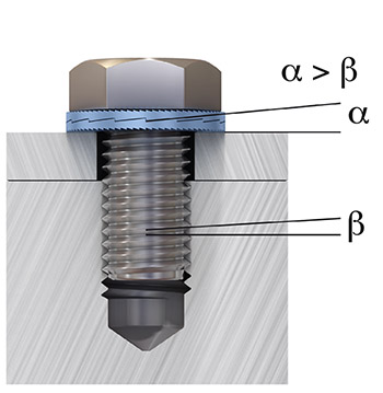 Nord-Lock wedge-locking principle